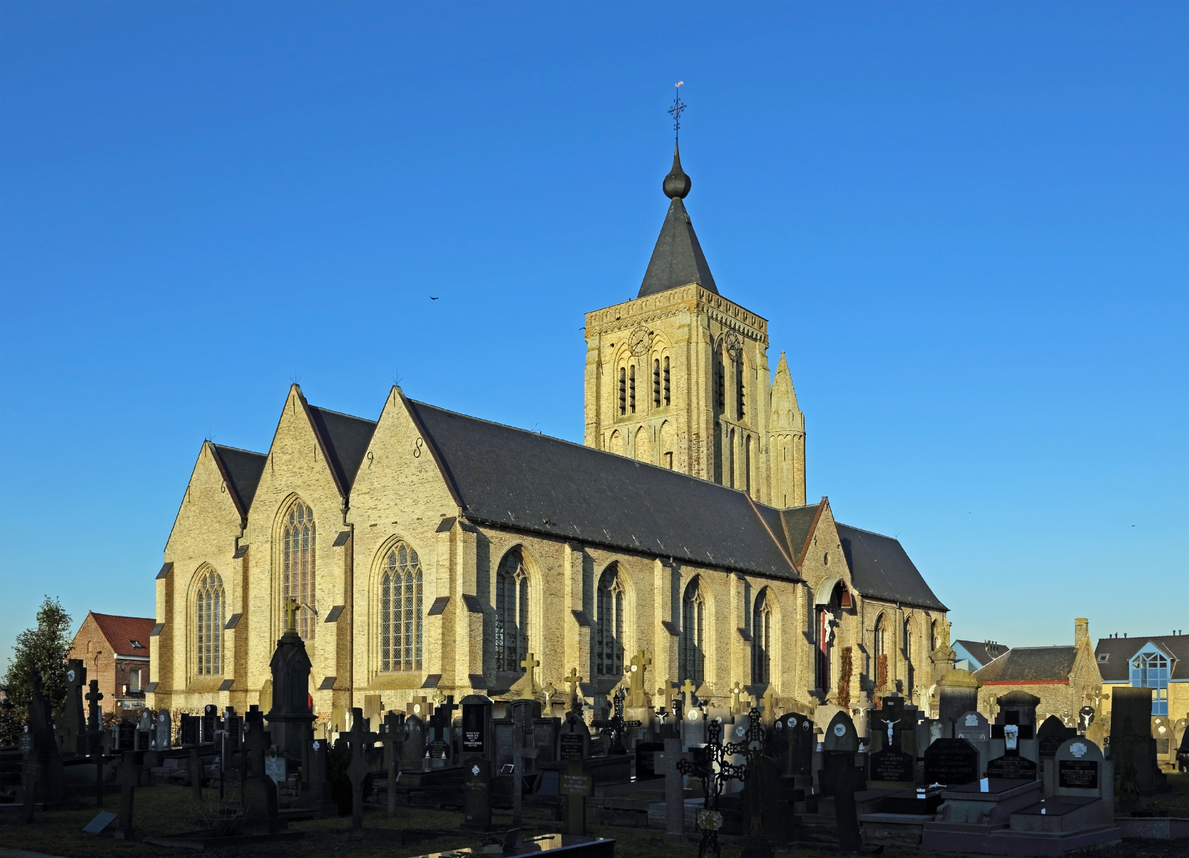 Alveringem (Belgium): St Audomar's church